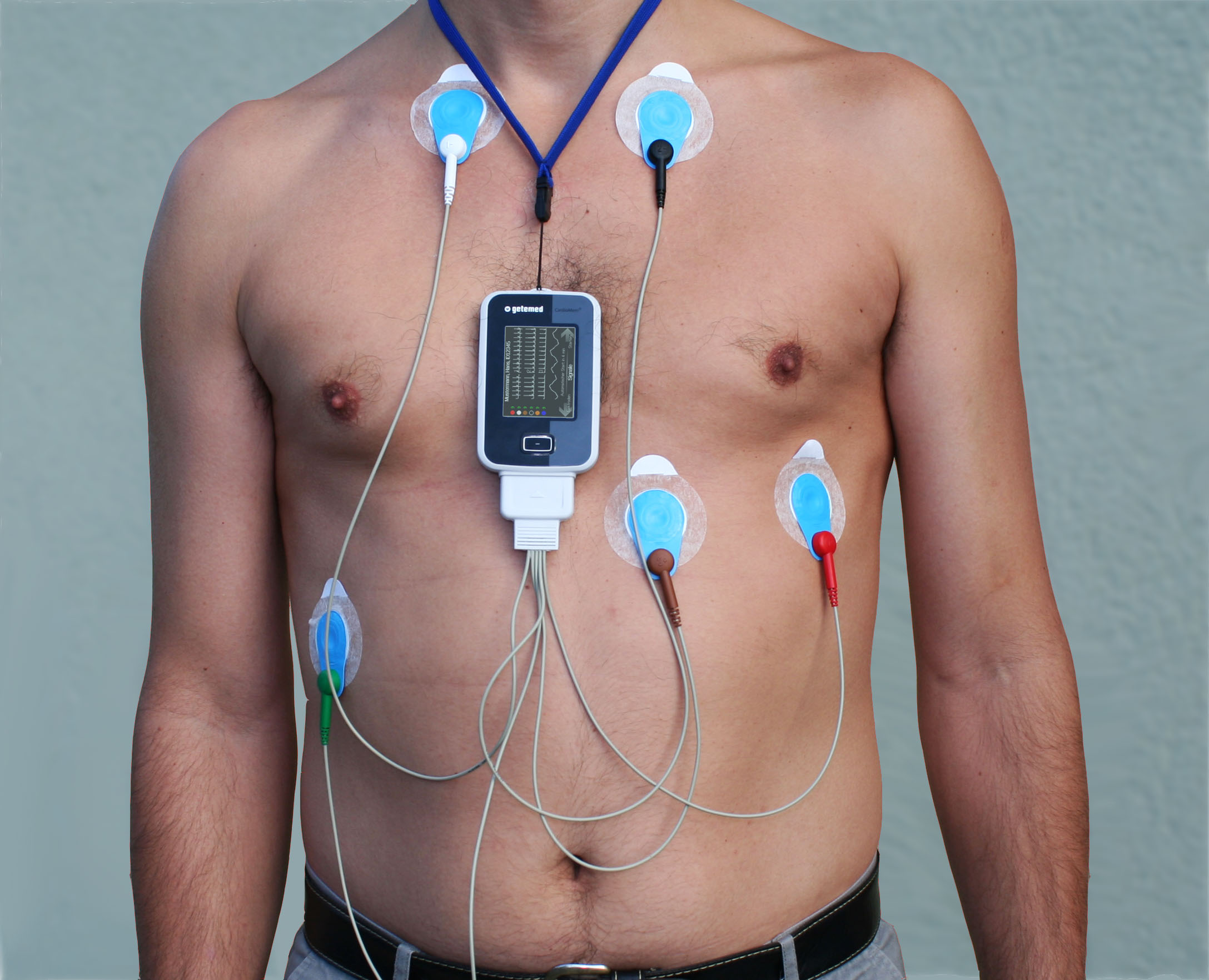 A patient carries a holter monitor.